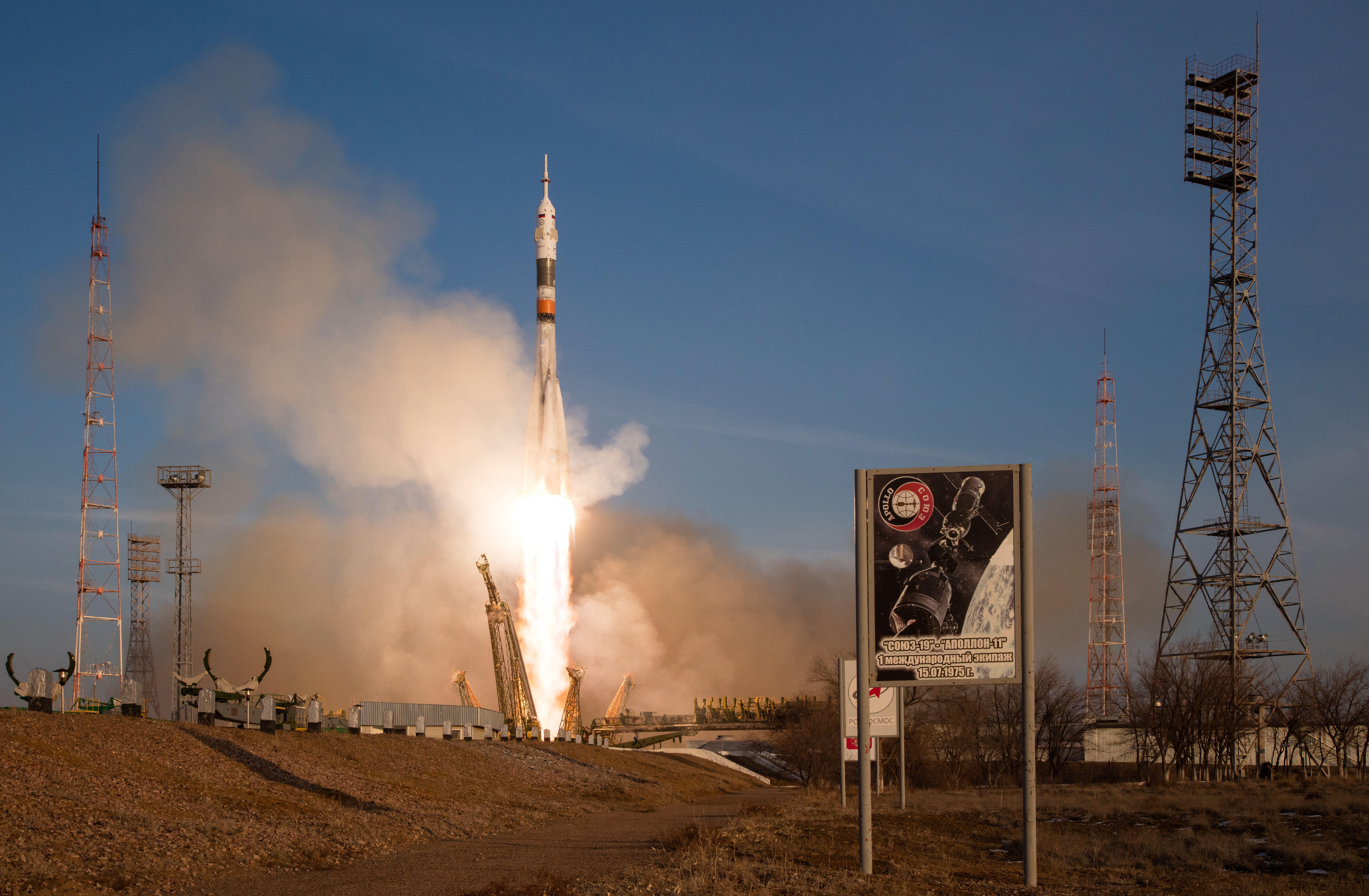 With a sign commemorating the 1975 Apollo-Soyuz mission in the foreground, the Soyuz TMA-19M spacecraft launched from the Baikonur Cosmodrome in Kazakhstan, Tuesday, Dec. 15, 2015, sending Expedition 46 Flight Engineer Tim Kopra of NASA, Soyuz Commander Yuri Malenchenko of the Russian Federal Space Agency (Roscosmos) and Flight Engineer Tim Peake of ESA (European Space Agency) to orbit for the start of six-month mission on the International Space Station.